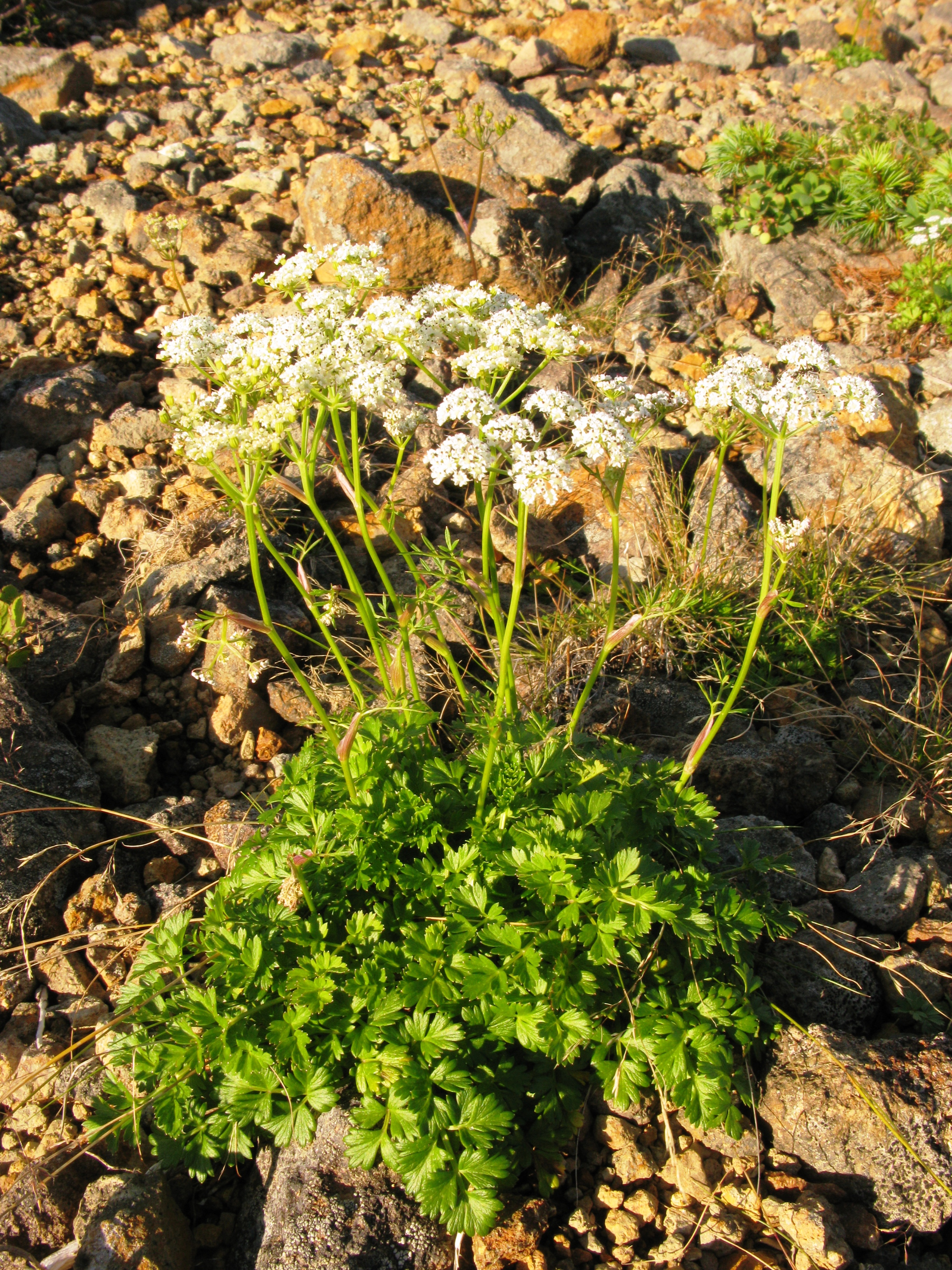 Tilingia ajanensis, Mt. Issaikyo, Fukushima pref., Japan